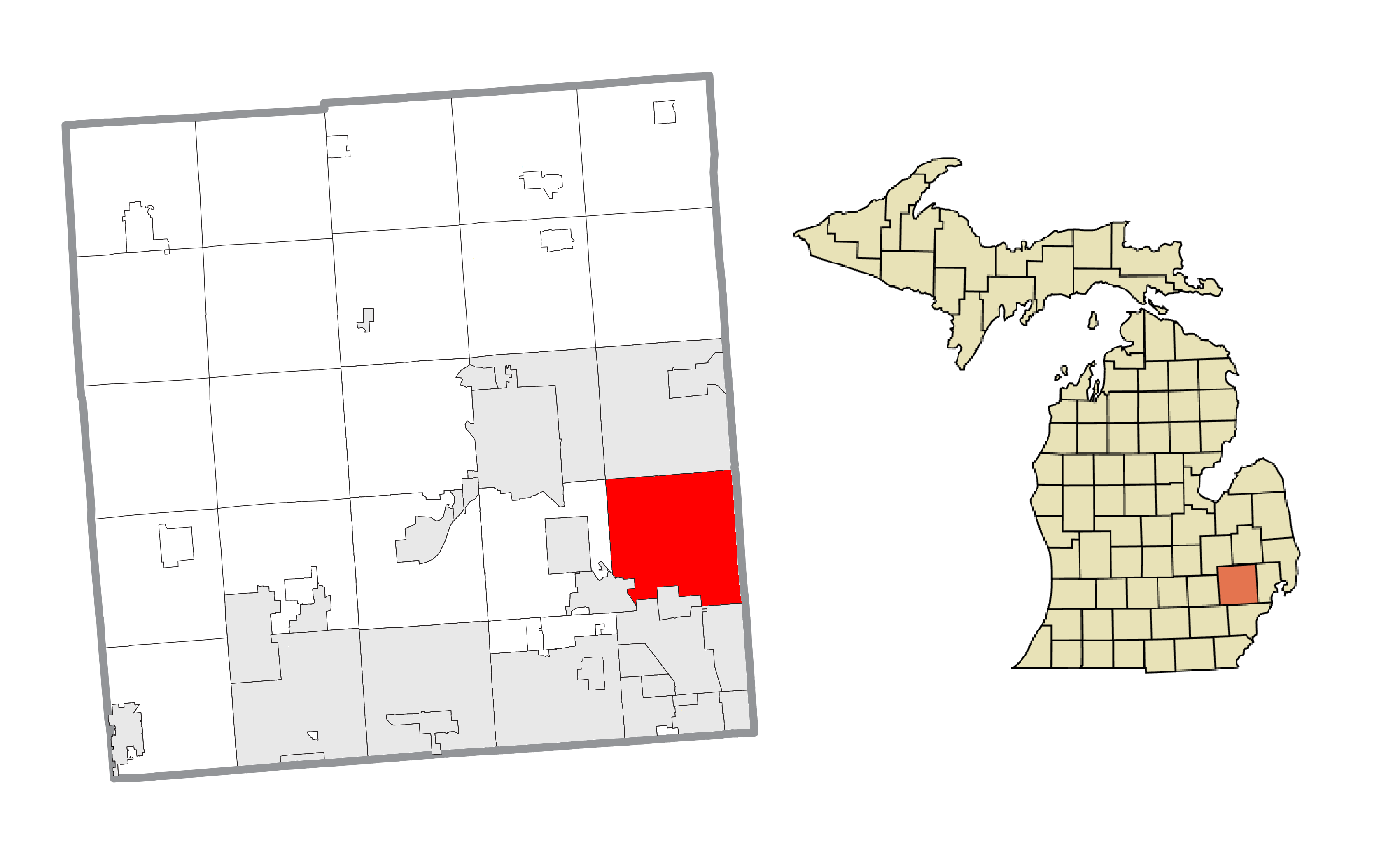 Troy, MI